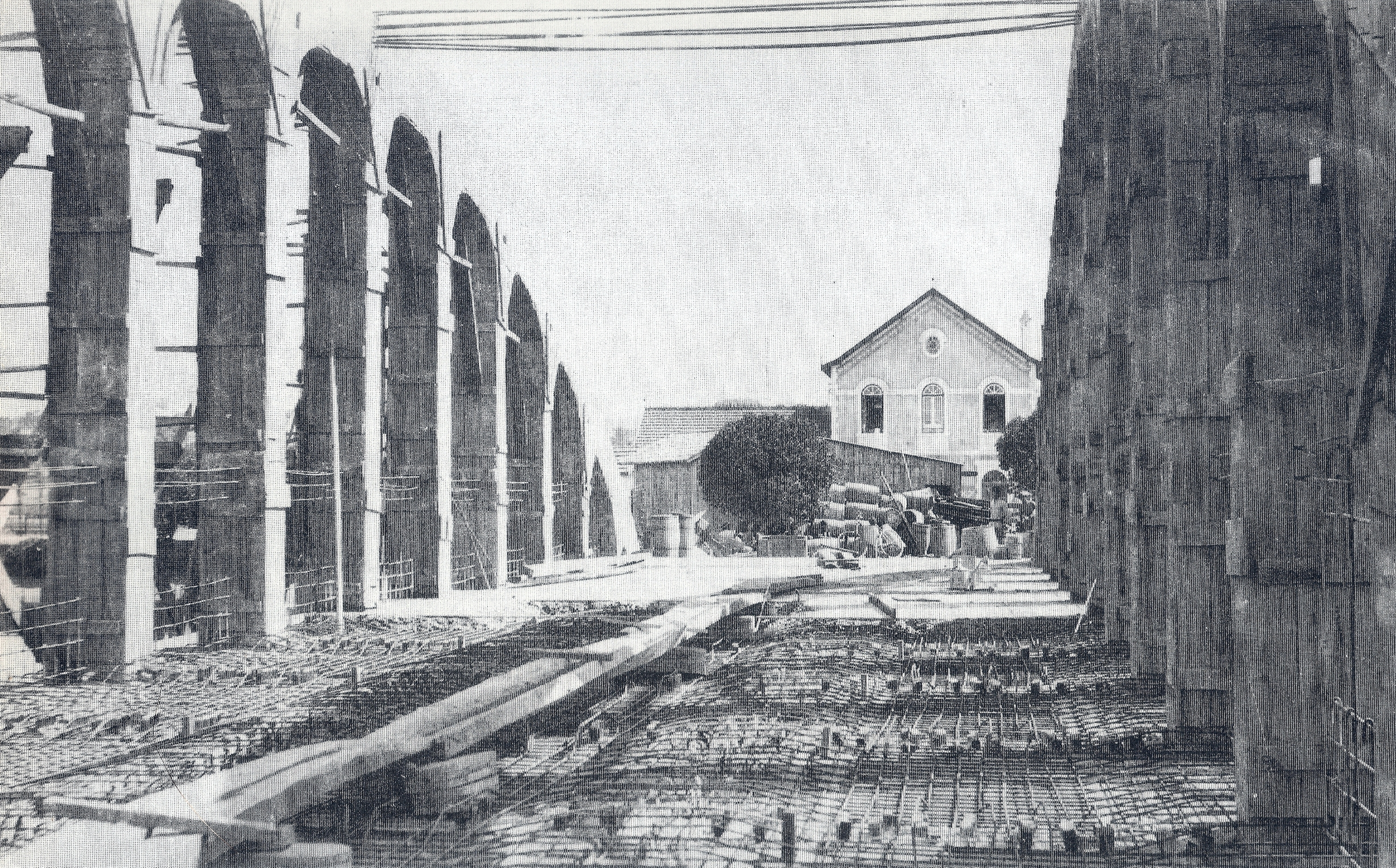 Construction of the road bridge to the Lagos Railway Station, in Portugal, in the 1920s.